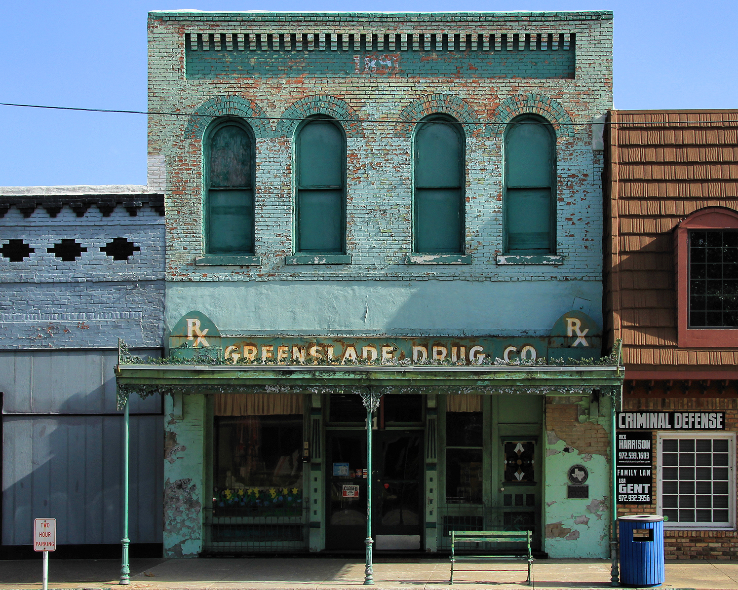 Greenslade Drug Store in Kaufman, Texas, United States. The building was designated a Recorded Texas Historic Landmark in 1968.